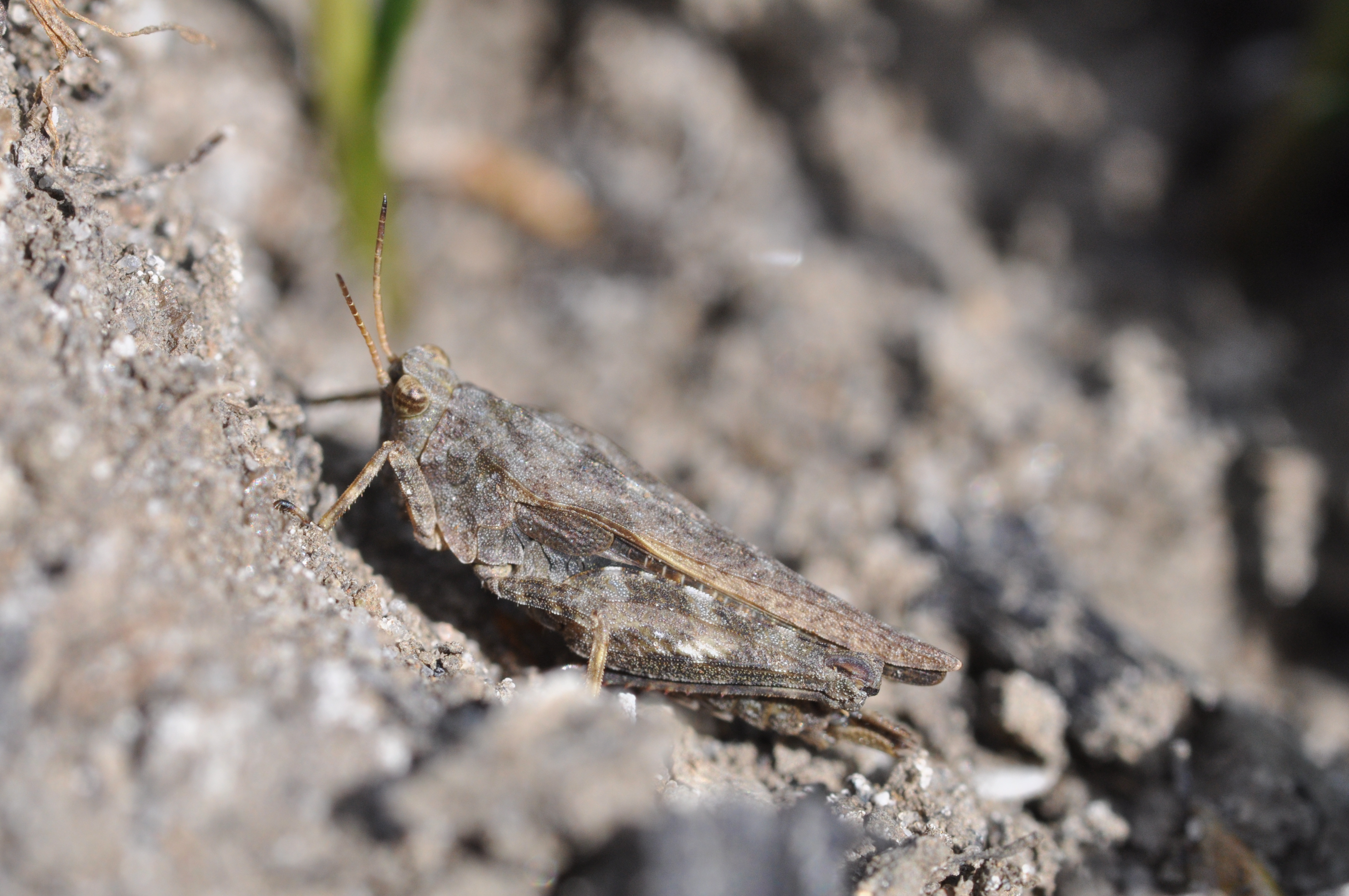 Common groundhopper in Kirchwerder, Hamburg.